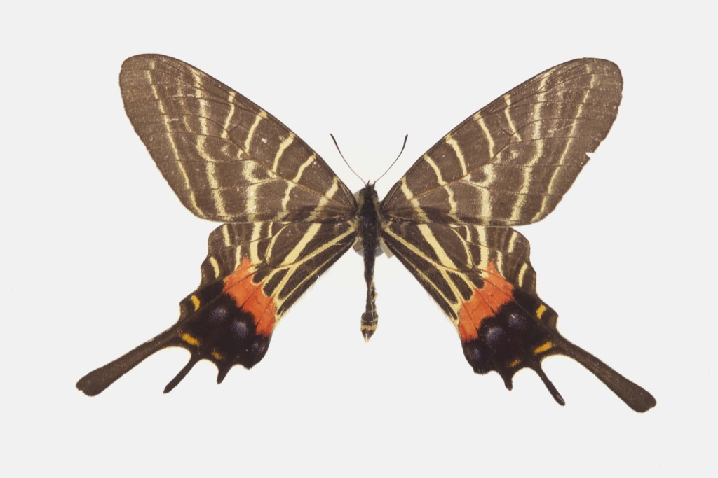 Bhutanitis thaidina (Blanchard, 1871) Shaanxi province, China